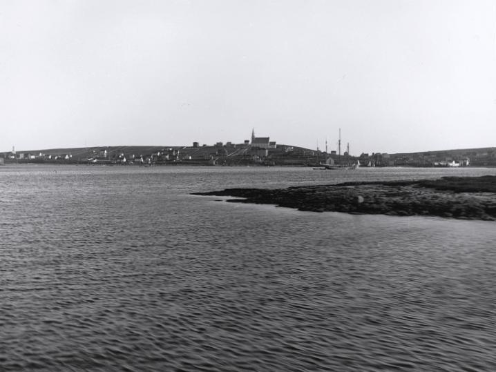 Photograph, Canso, NS, about 1914, Wm. Notman & Son, Silver salts on glass - Gelatin dry plate process - 20 x 25 cm